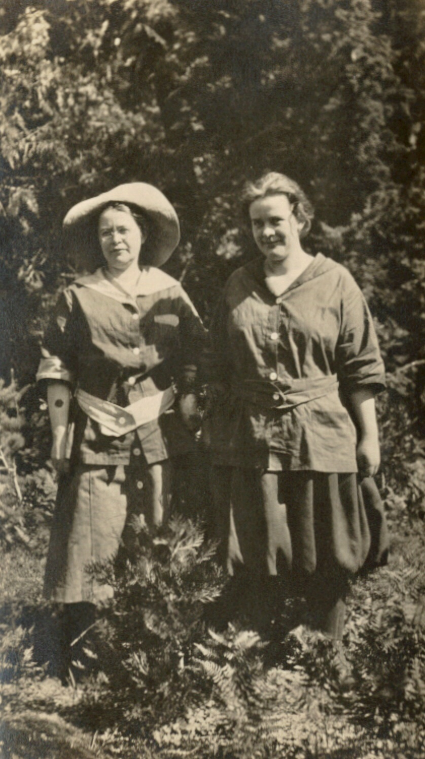 This is a family photo in my collection. On the back it reads, "Hattie and Naomi, Breitenbush Hot Springs, 1919," written in Hattie's handwriting.